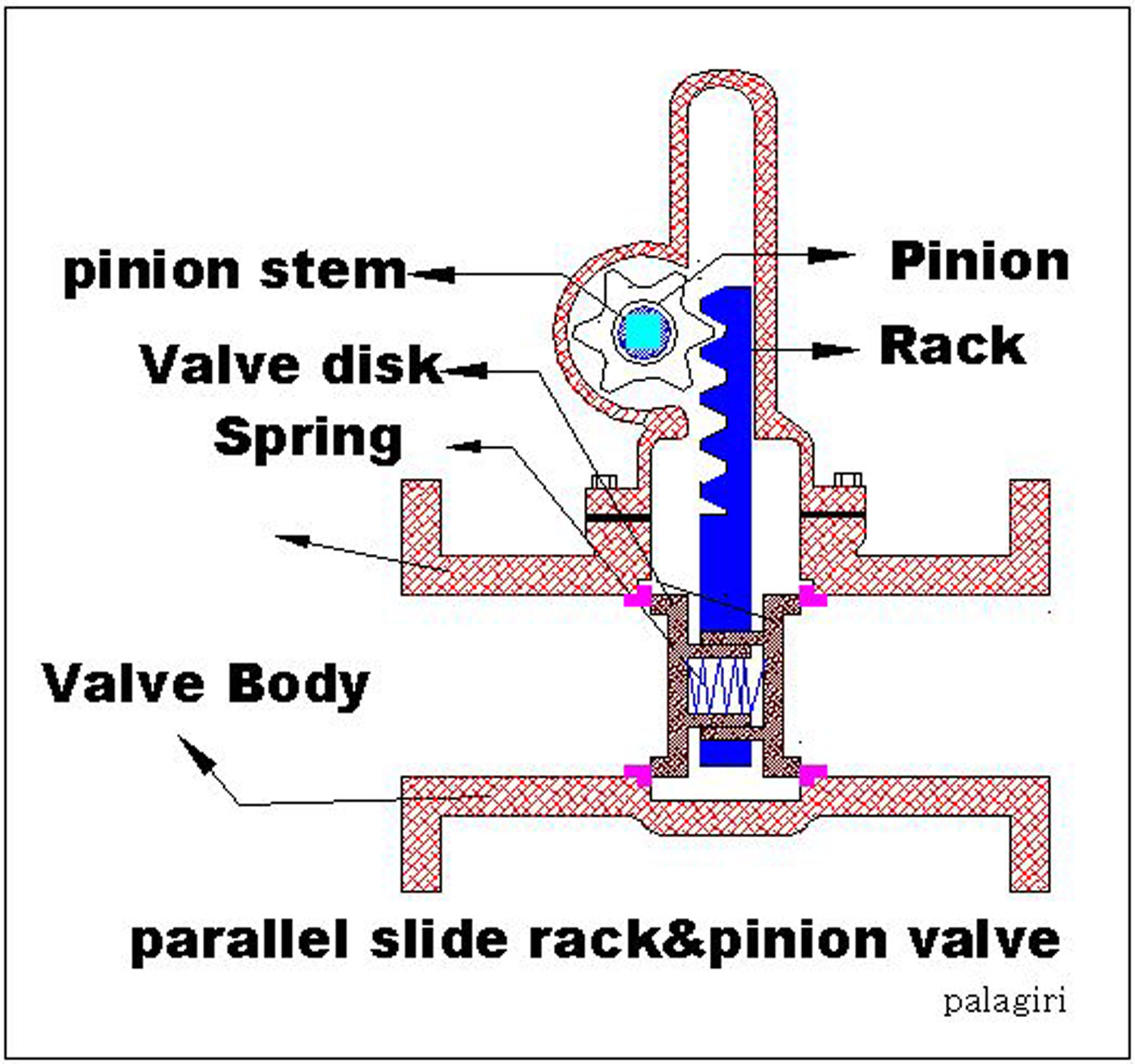 Rack and Pinion valve .It is used in Boilers to blow down boiler water